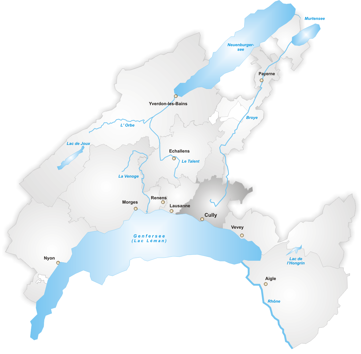 District Lavaux-Oron from 2008